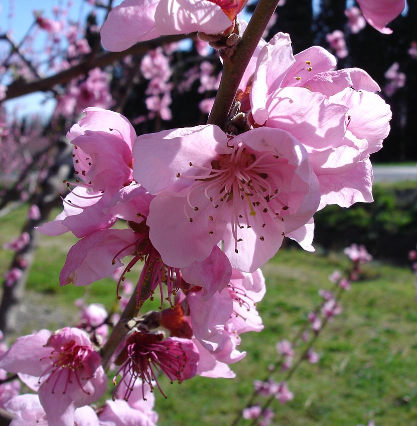 Flowers of Prunus persica